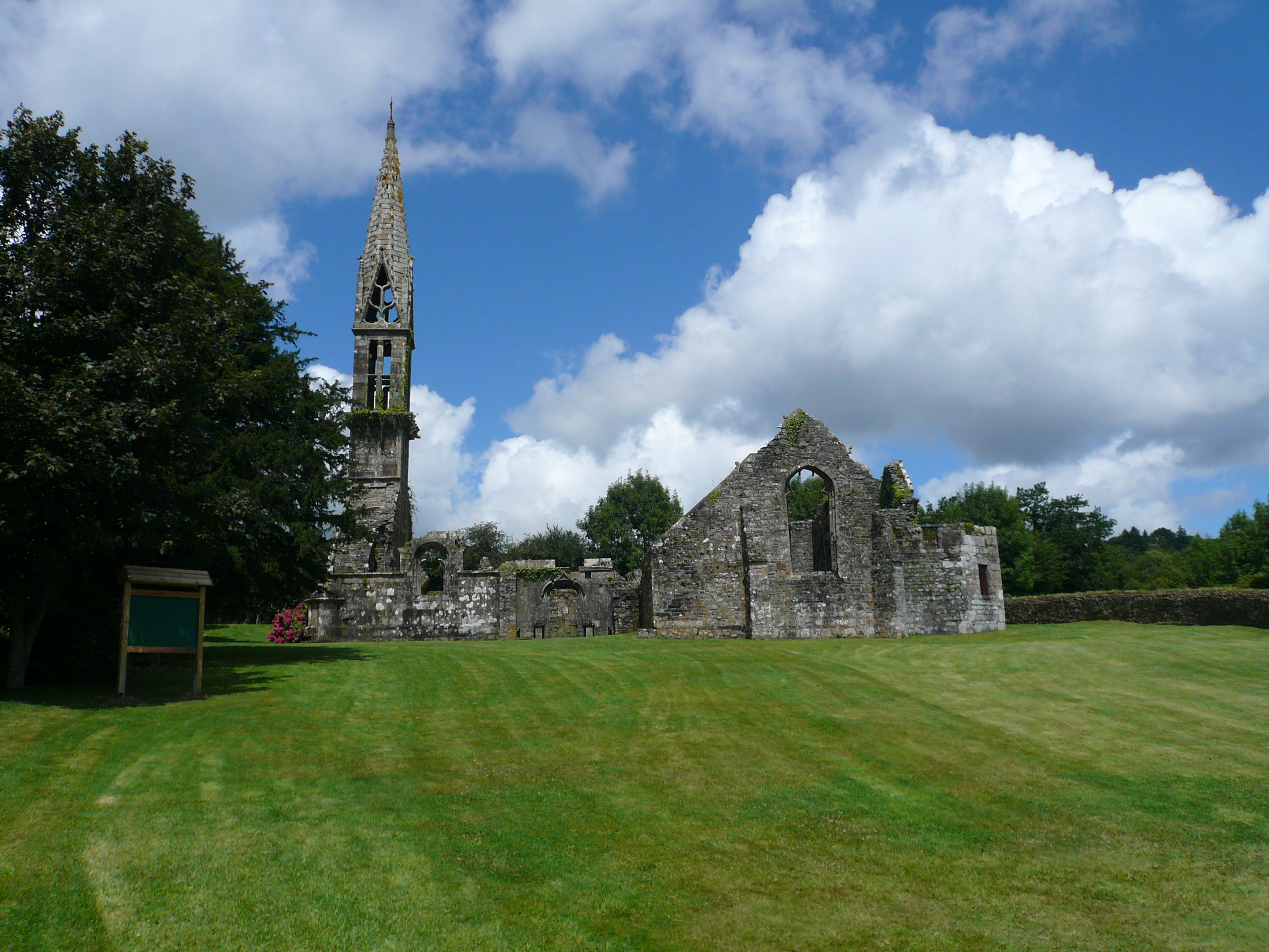 Ruins of former parish church of Quimerc'h, Pont-de-Buis-lès-Quimerc'h, Finistère, Brittany, France